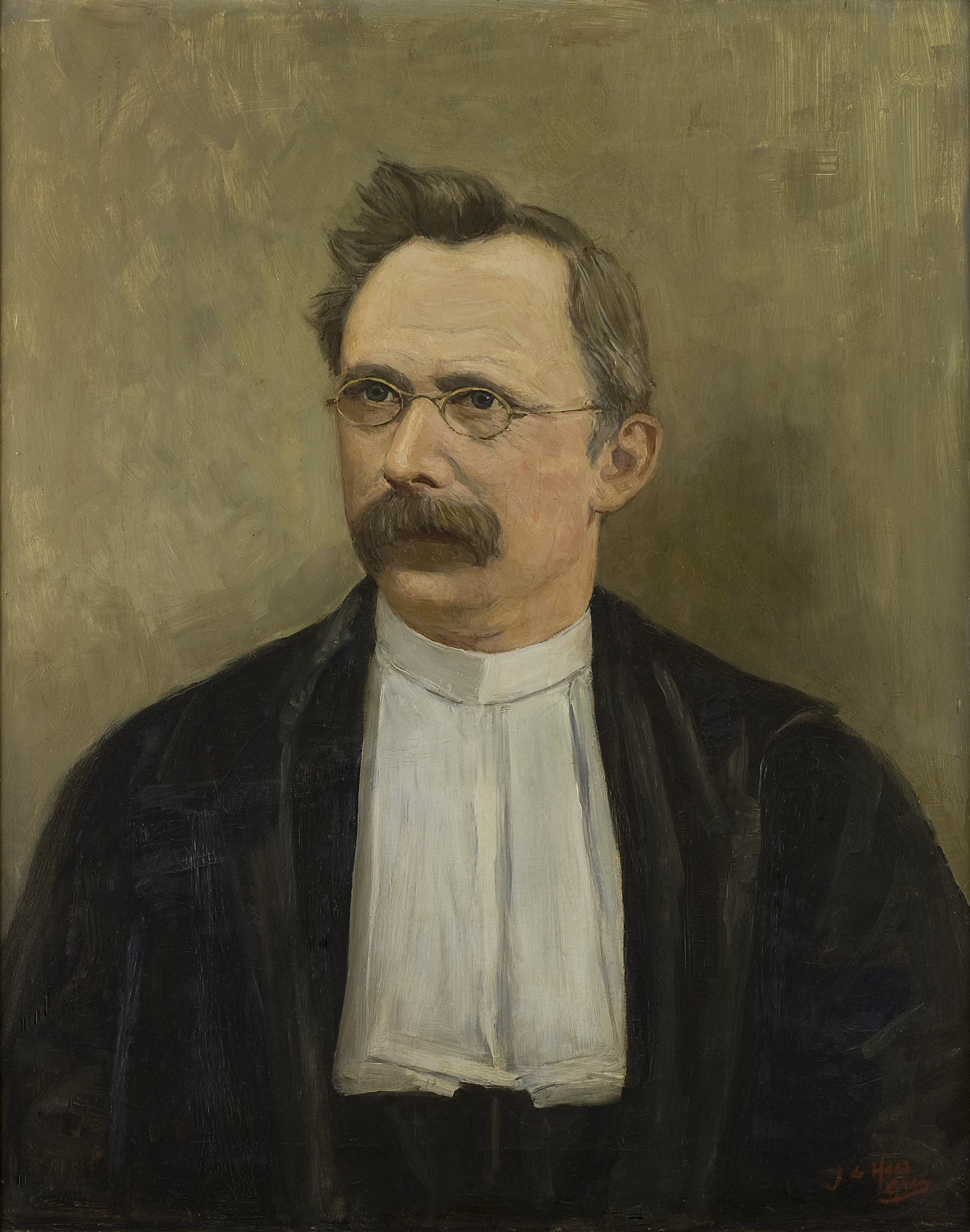 Dutch linguist Willem Lodewijk van Helten (1849-1917)